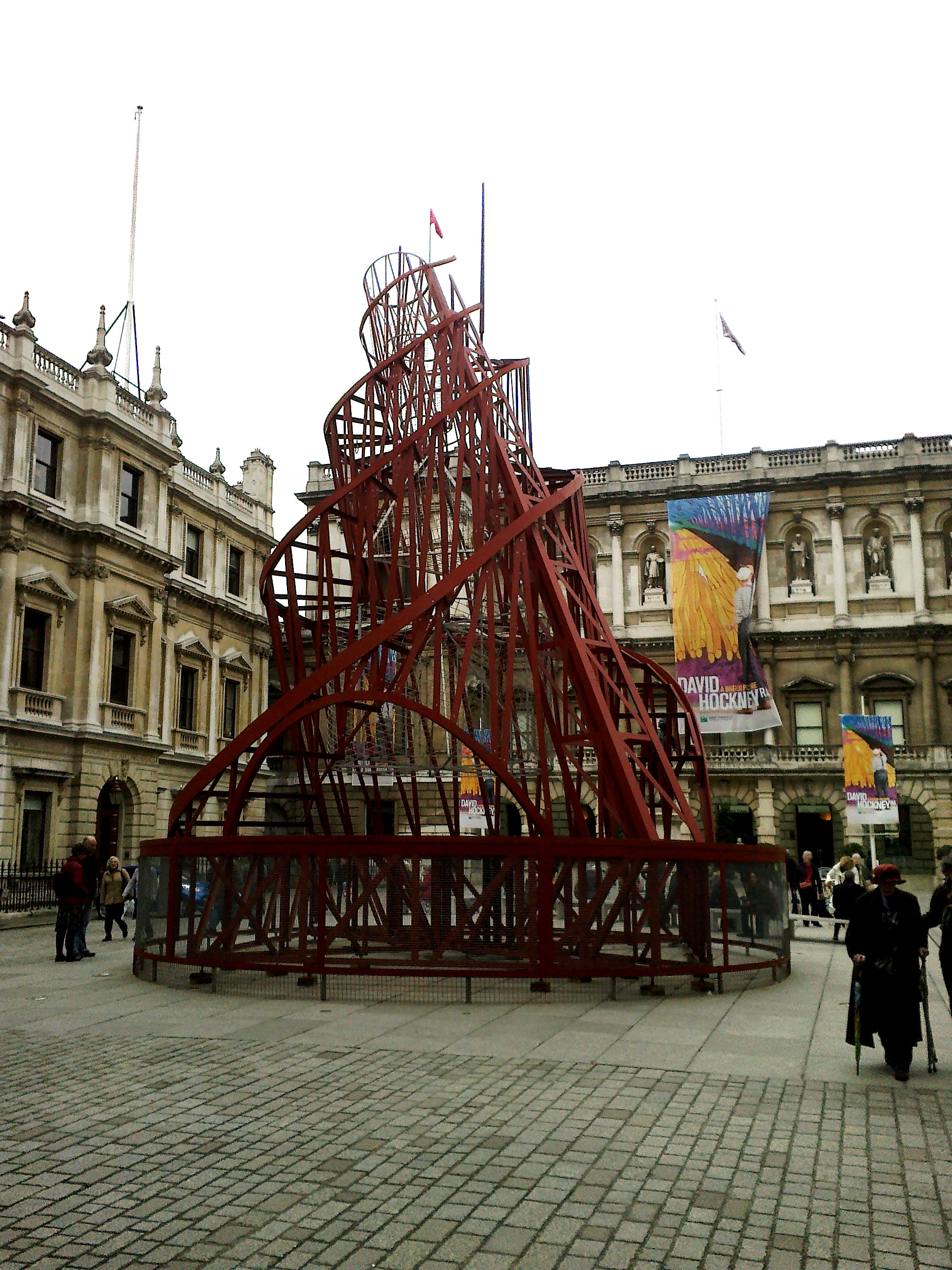 Model of Tatlin Tower, Royal Academy, London, 27 Feb 2012